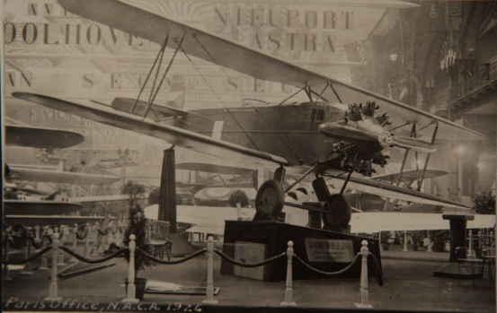 Avia BH-26 at the 1926 Paris Air Salon